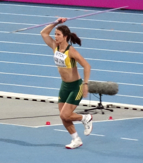 2016 IAAF World U20 Championships in Bydgoszcz, javelin throw women final